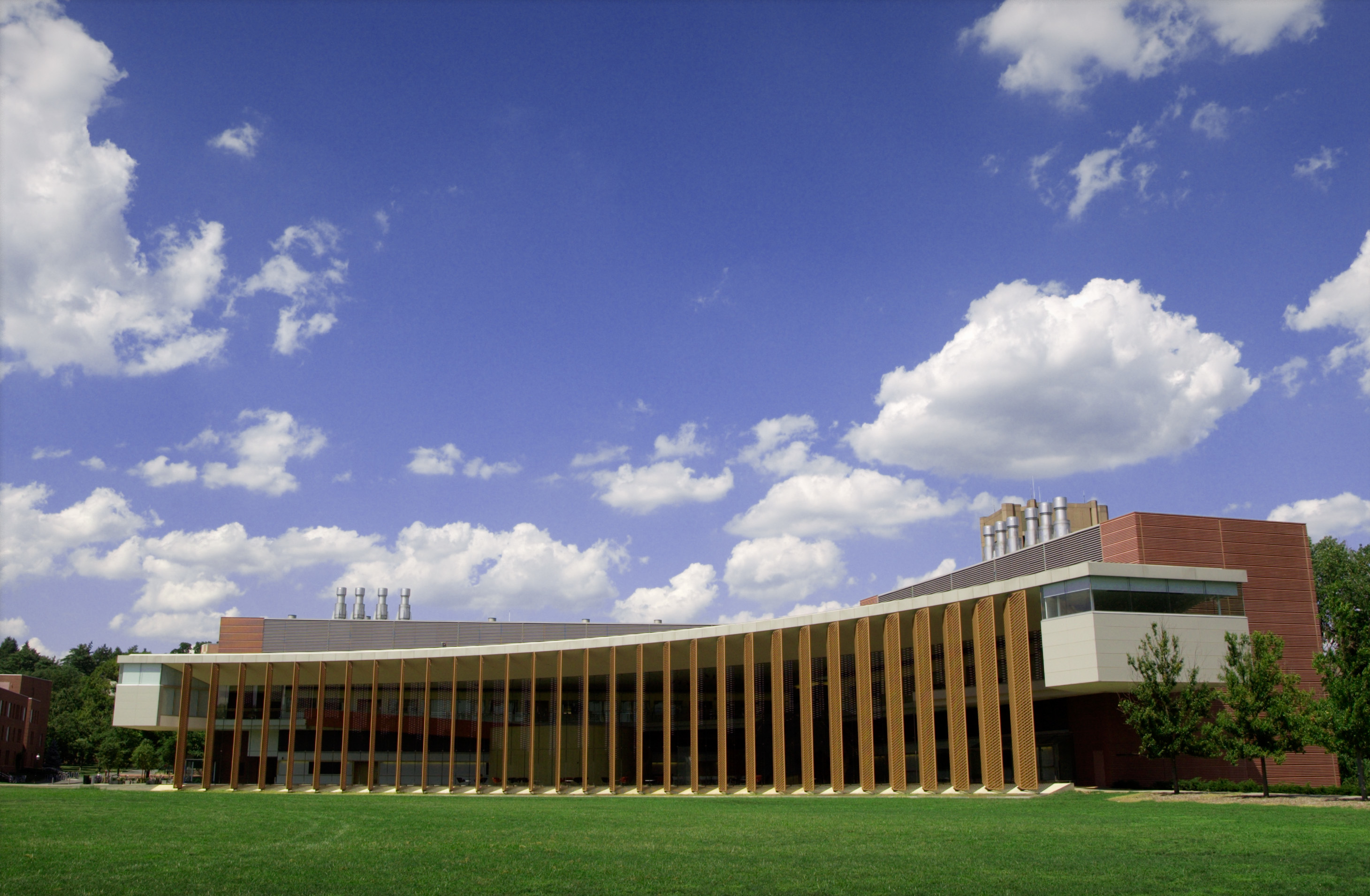 Carl C. Icahn Laboratory, Princeton University, New Jersey, USA. The slats in front serve as automated temperature control, responding to the sun's position throughout the day.